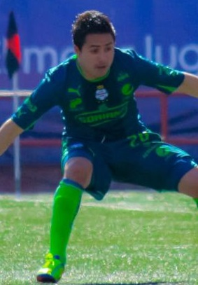 Santos Laguna player Osmar Mares